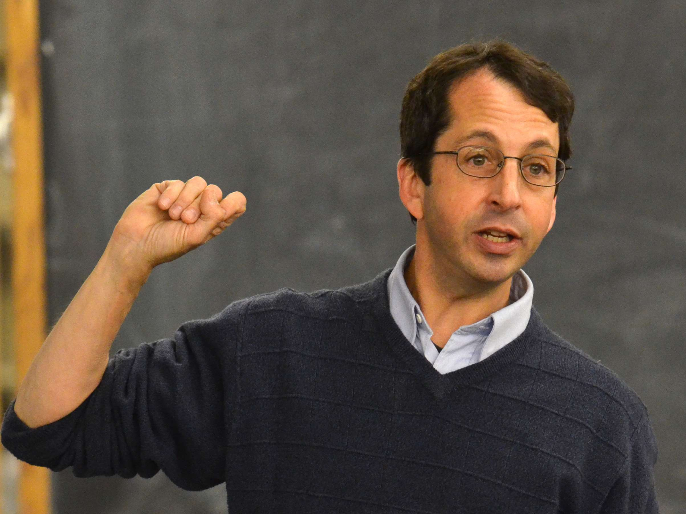 Photo taken of Steven Pollock at the University of Colorado Boulder